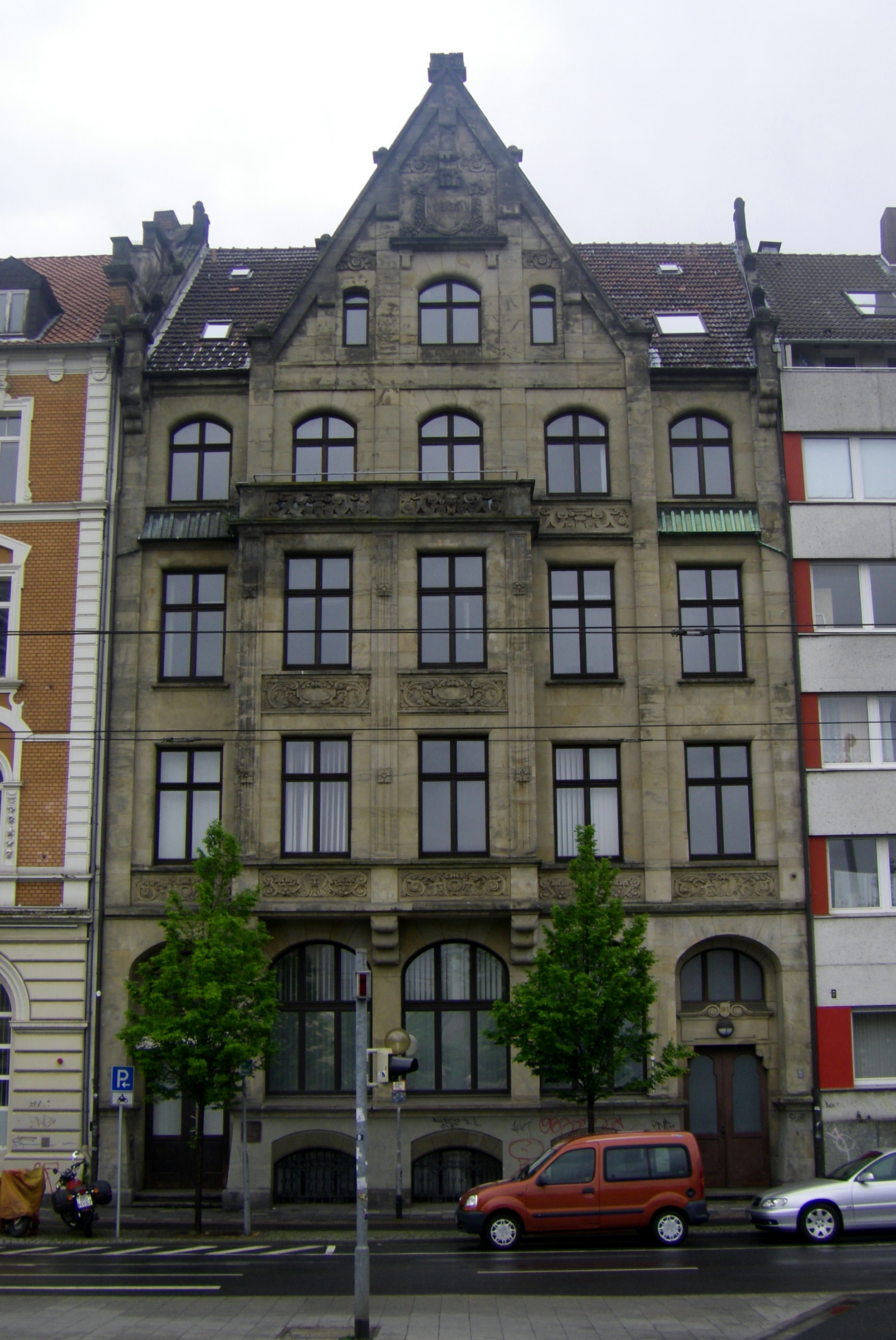 In this house lived Ricarda Huch from 1907 till 1910